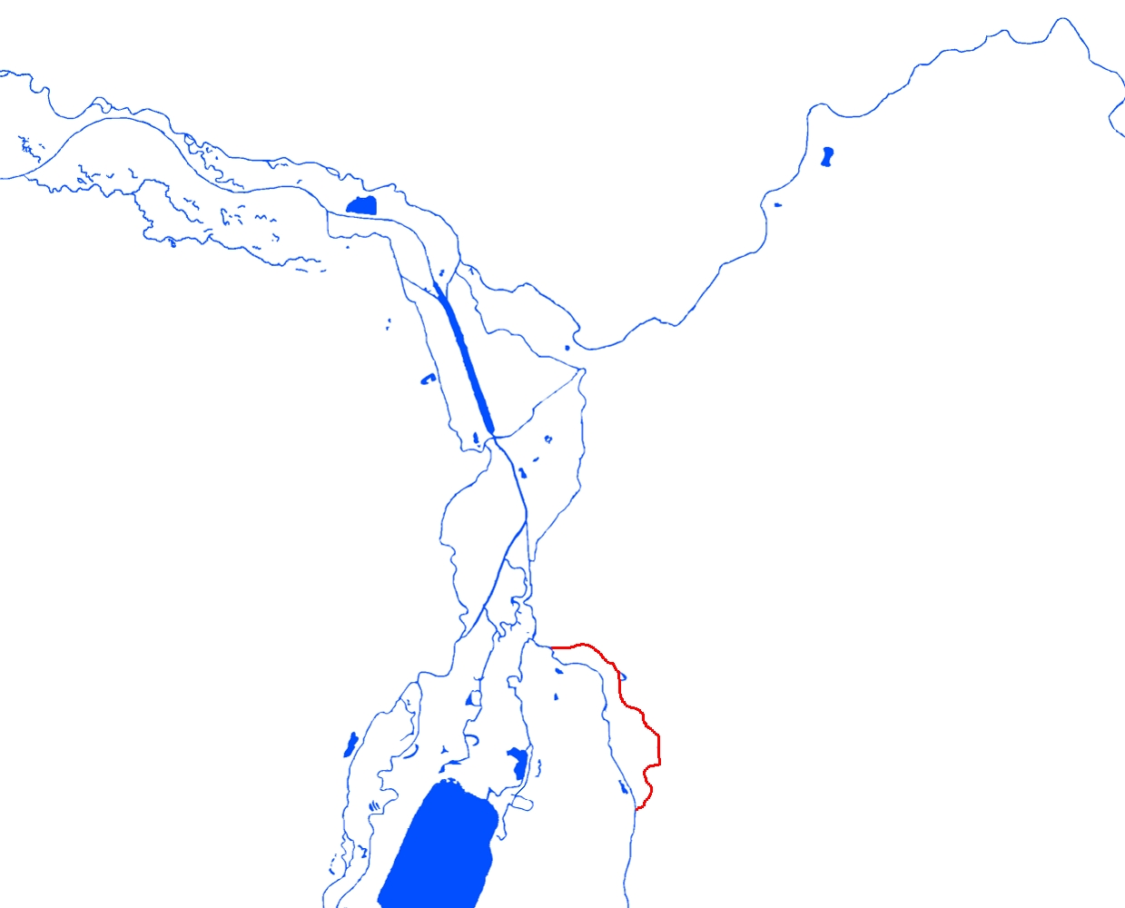 The Waterknot of Leipzig with the Mühlpleiße (in red)